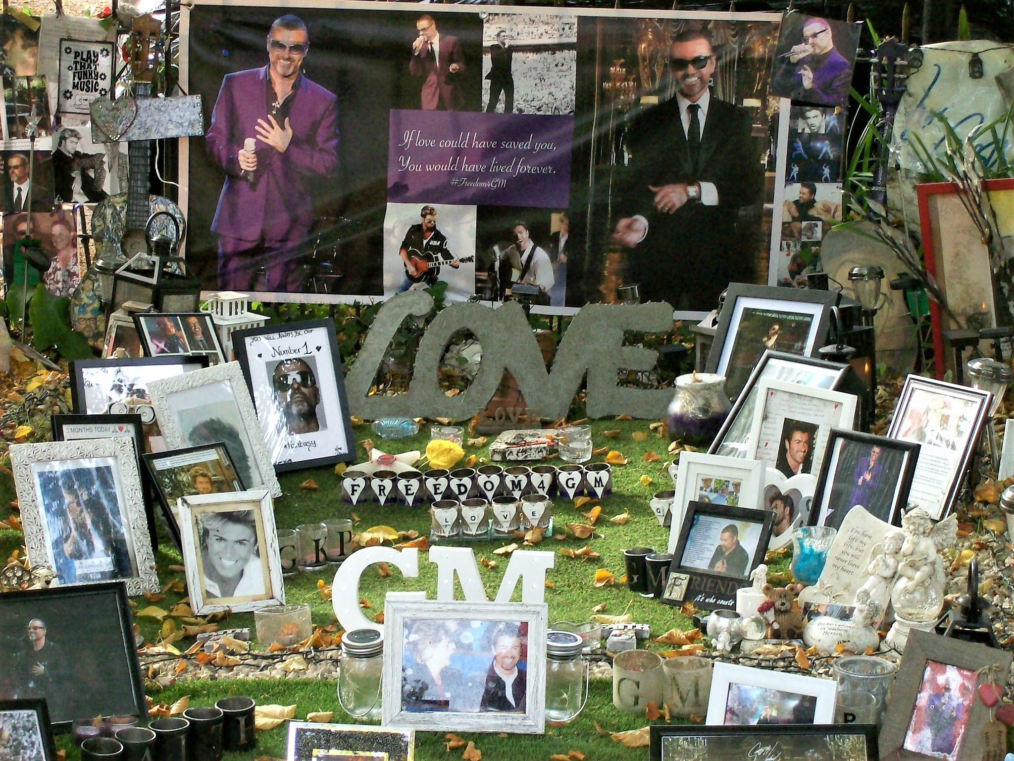 George's Garden, the Grove, Highgate- unofficial memorial garden outside George Michael's former home.